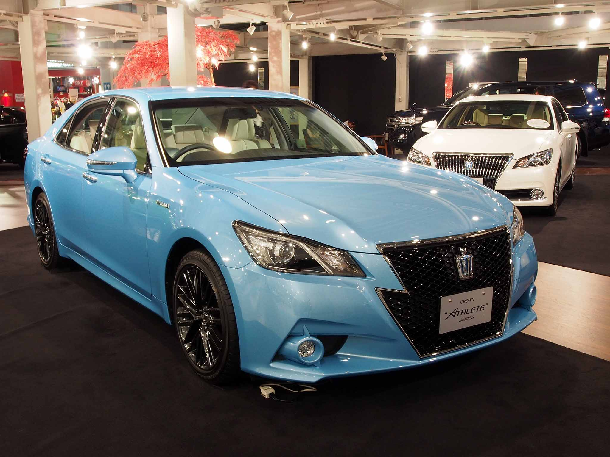 Toyota Crown Athlete S "Sky Blue Crown" Displayed at MEGAWEB. Model: DAA-AWS210